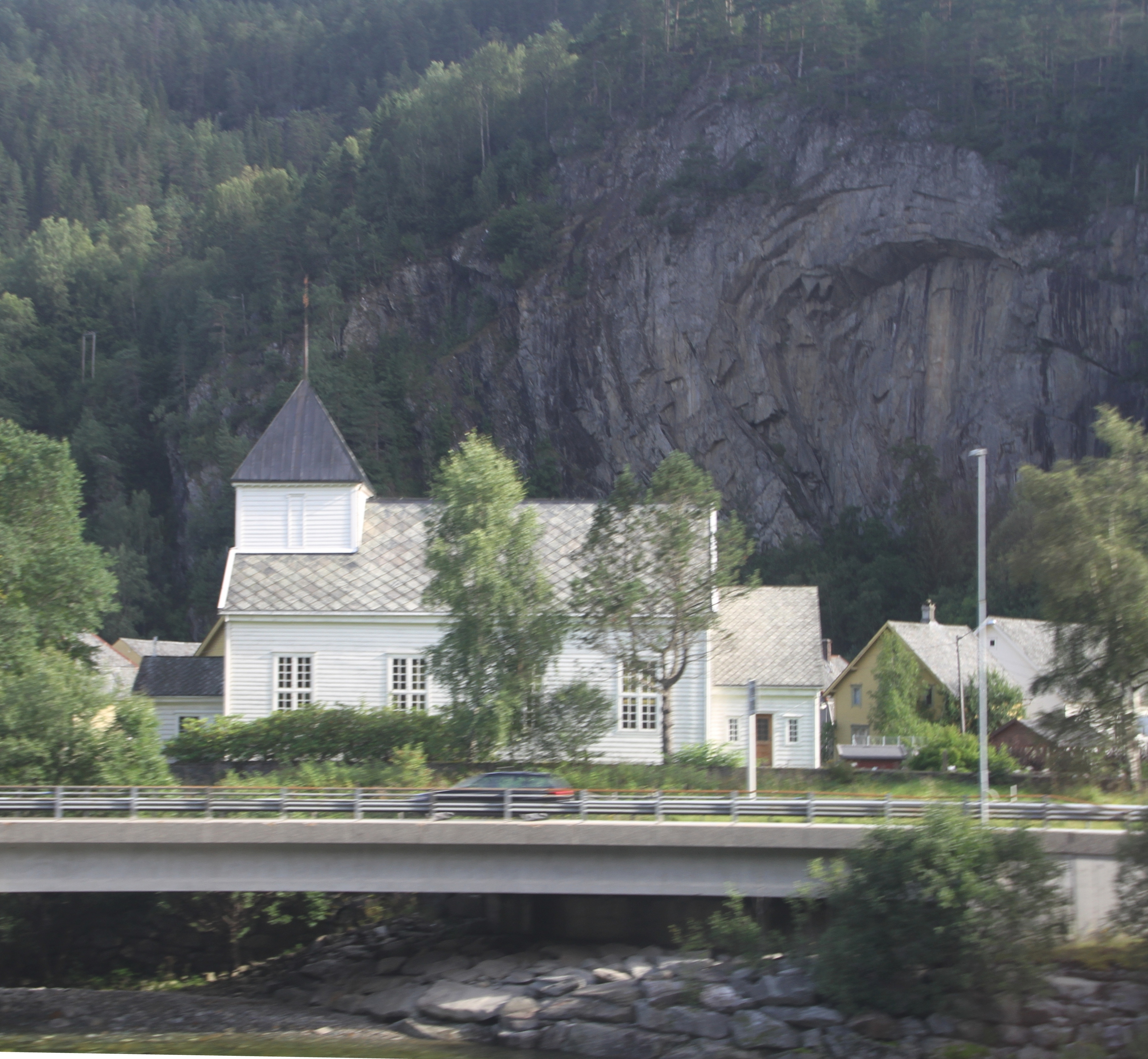 Evanger Church in Voss municipality, western Norway